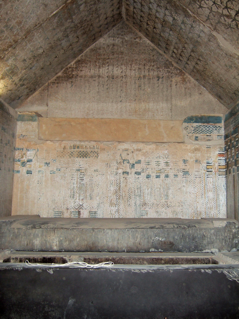 Photograph taken inside Unas' burial chamber displaying the sarcophagus, royal palace facade motif, west gable inscriptions, and starry ceiling.